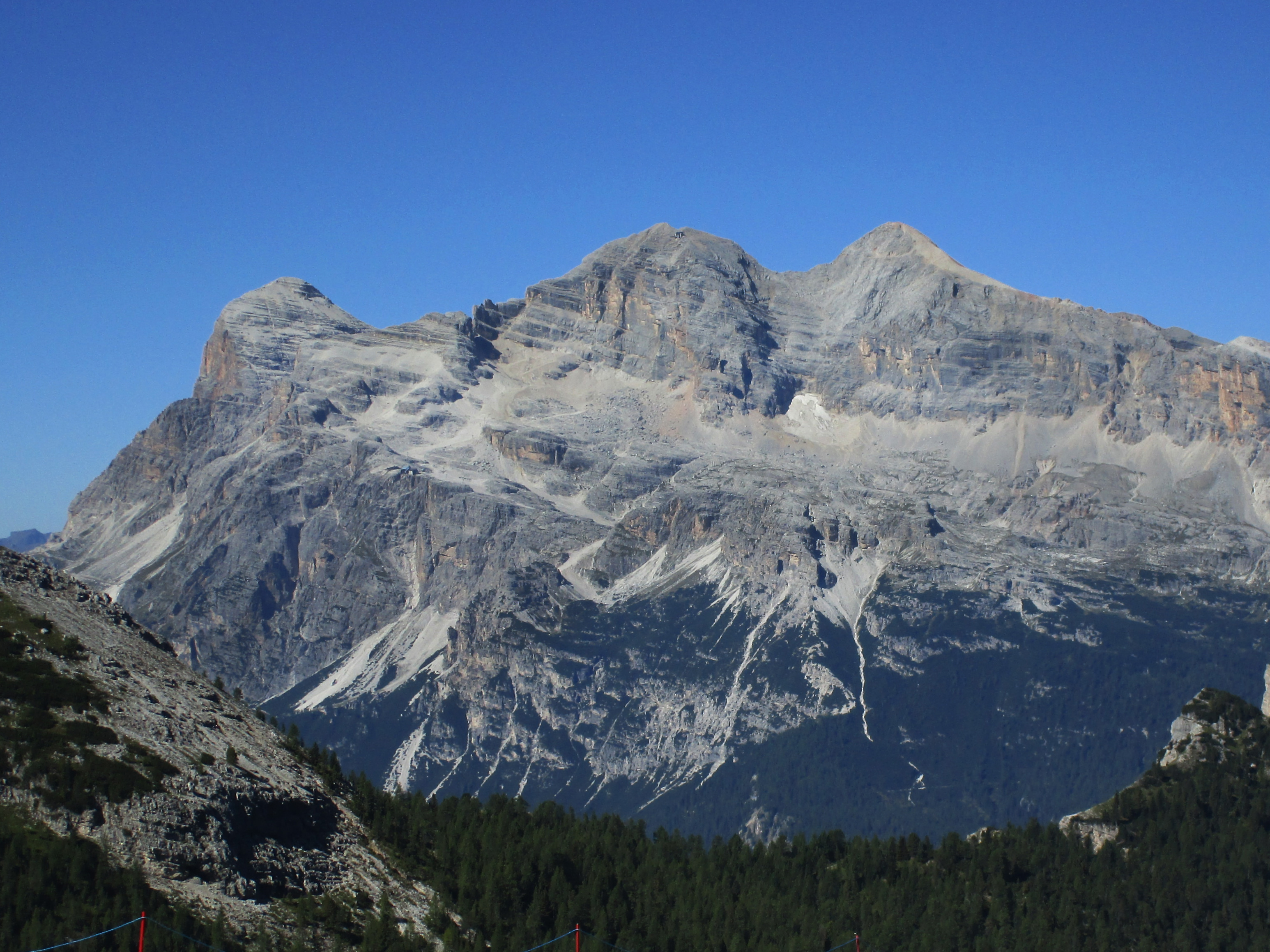 Tofane seen from the East